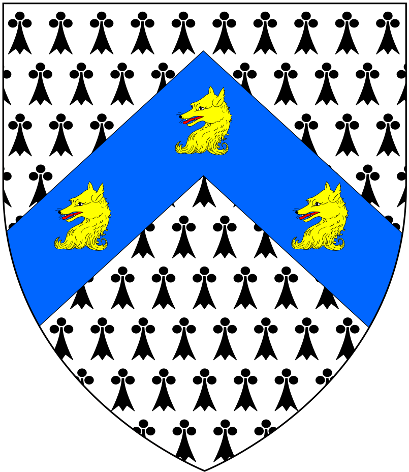 Arms of Fox of Farley, Wiltshire: ' Arms of Fox (Baron Holland) & Fox (Earl of Ilchester): Ermine, on a chevron azure three fox heads and necks erased or on a canton of the second a fleur-de-lys of the third. The canton is an augmentation of honour to his paternal arms, granted out of the Royal Arms as a mark of esteem to Sir Stephen Fox (1626-1716) and his heirs forever, by King Charles II following the Restoration of the Monarchy(Debrett's Genealogical Peerage of Great Britain and Ireland, London, 1847, p.422 (Earl of Ilchester)[1]). Sir Stephen Fox had remained with King Charles II during his exile in France.